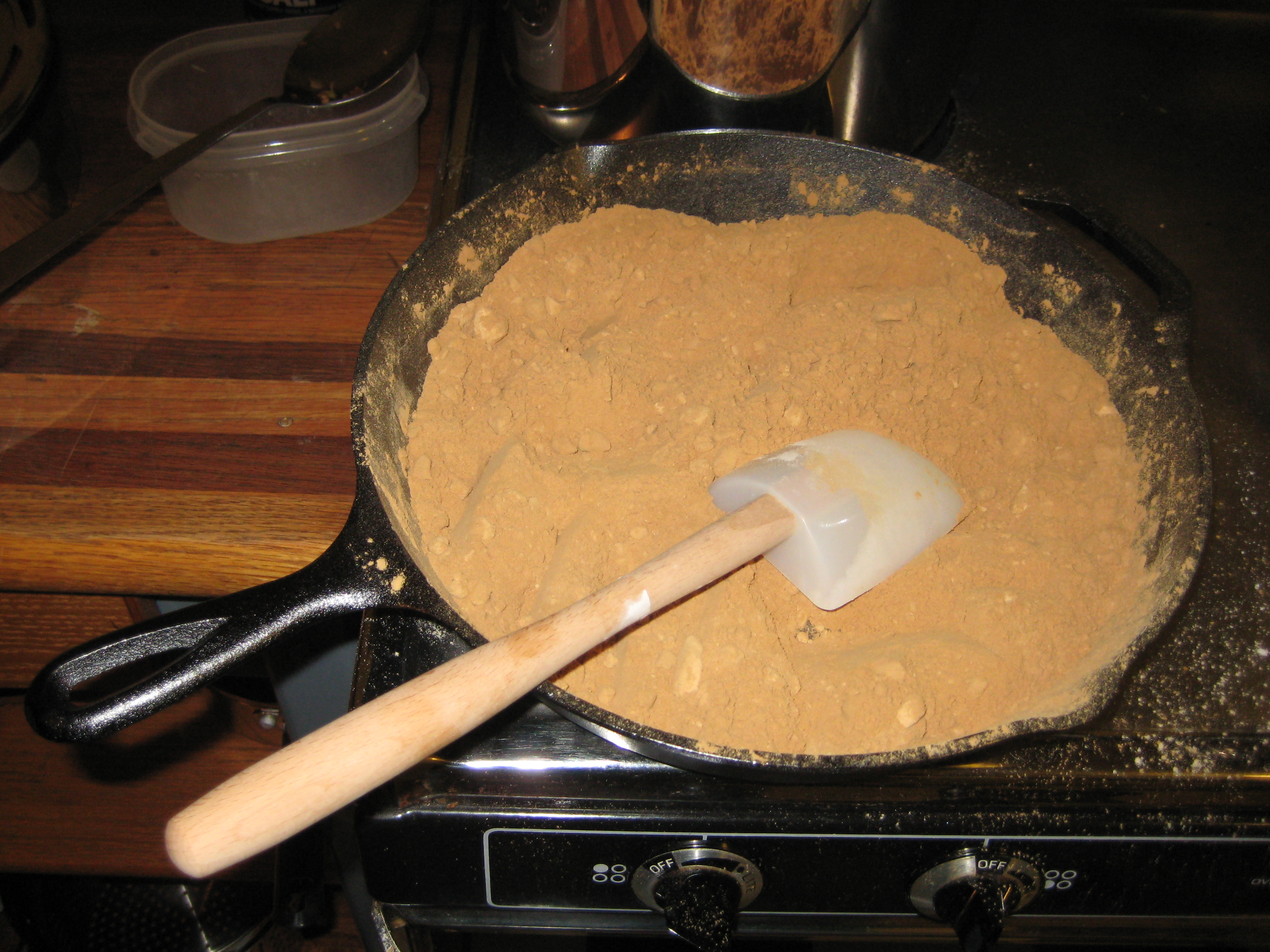 Two hours at 400 degrees would turn you brown, too.